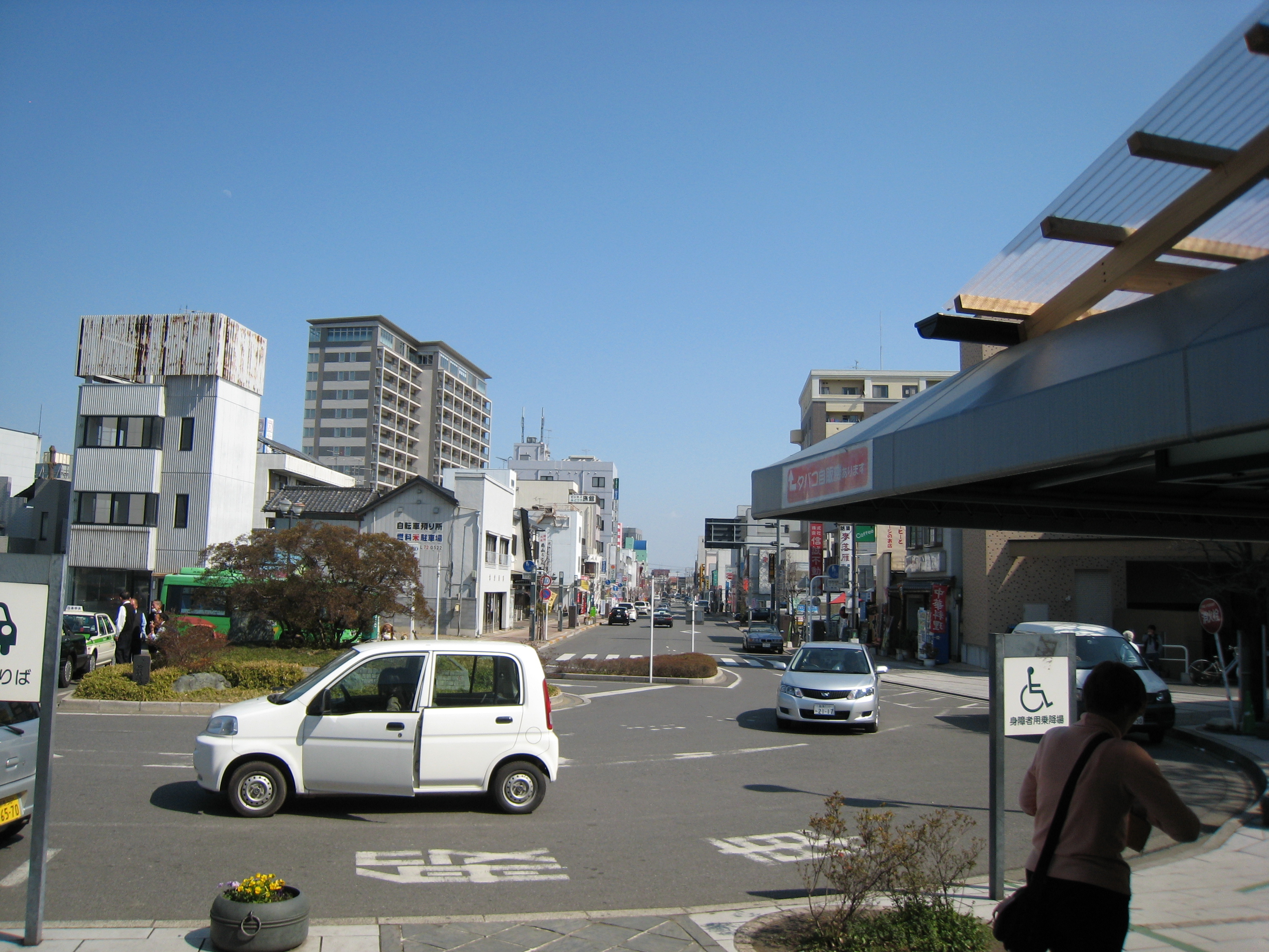 Tatebayashi station main street in Tatebayashi city,Gunma Prefecture,Japan, taken at 15,March,2008 by Taketarou